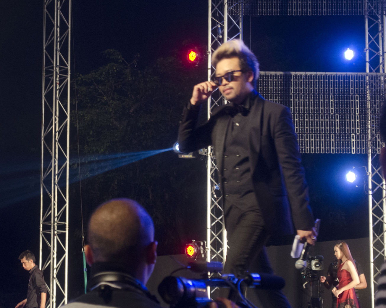 Ketusephyswasdi Palkawngsnxyuthya (Na Nake)